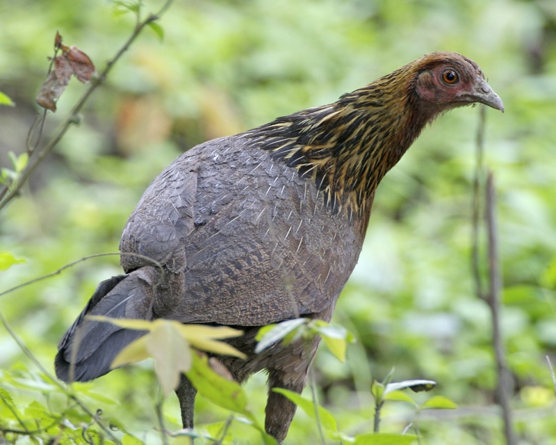 Red Junglefowl Gallus gallus - female. Kaziranga, Assam, India; 15 April 2008.